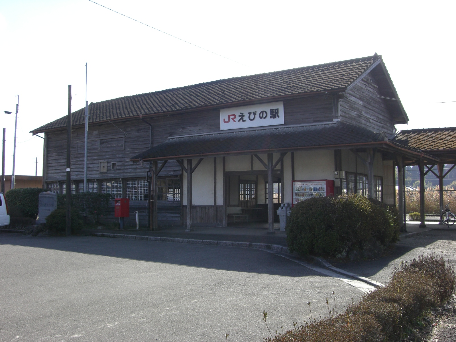 Ebino Station building